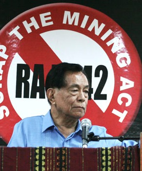 Cropped from this original upload. Senate President Nene Pimentel (2000-2001)